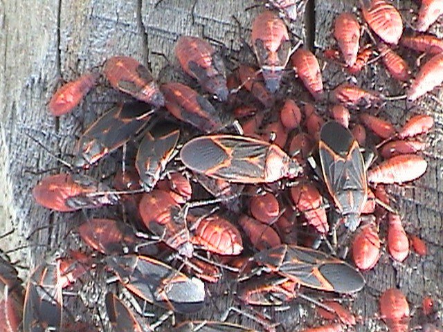 Summer image of Box Elder Bugs massing on fence post, Montour trail extension, McDonald, PA. Notice the maturation cycle is underway. True bugs are massing on the south and east sides of the wooden creviced post. When agitated, they scatter and some fly off. They did not bite, but are known to bite humans occasionally.